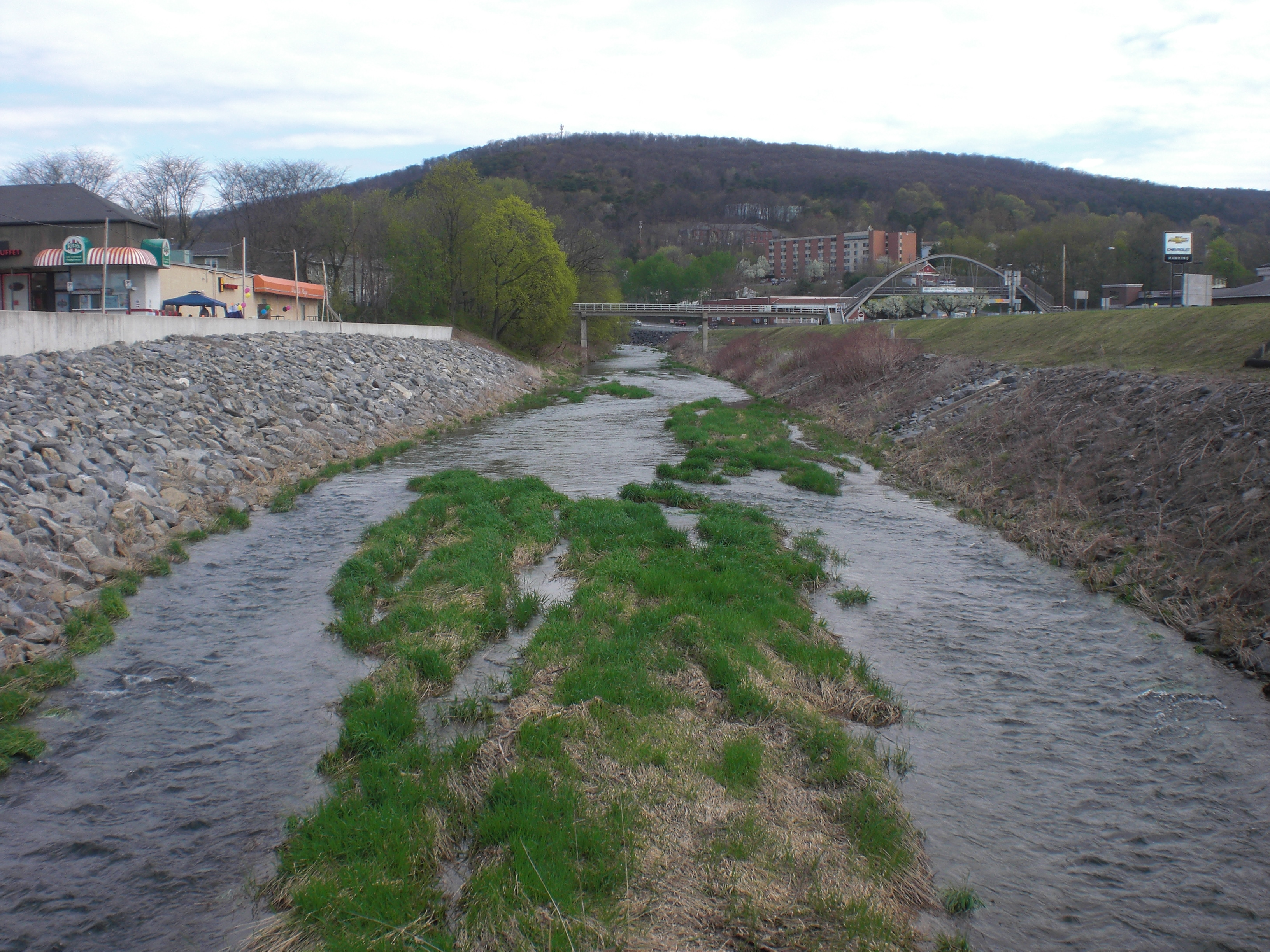 Mahoning Creek looking upstream from U.S. Route 11 in Danville